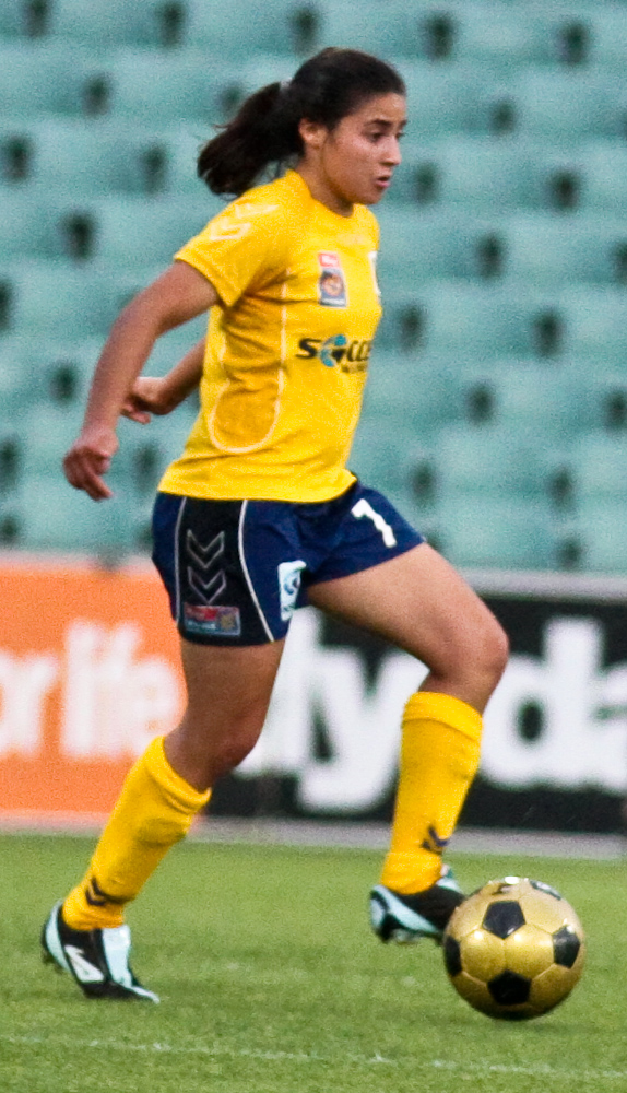 Teresa Polias playing for the Central Coast Mariners against Melbourne Victory in Round 10 of the 2008 W-League.